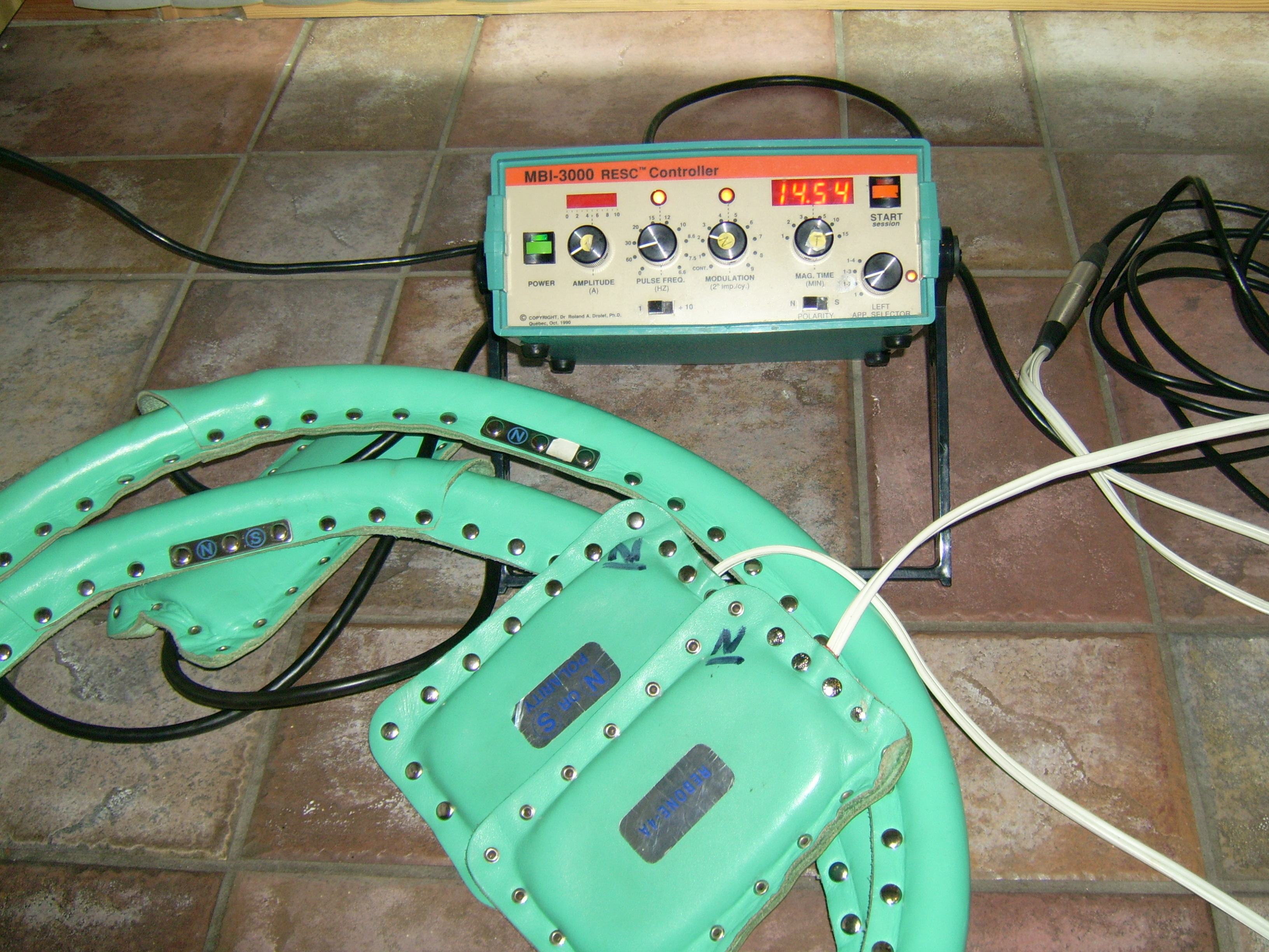 Again, this is a picture of the Patented (Rhumart) MBI-3000 RESCtm Controller. It is an Pulsed Electromagnetic Field Theraputic device invented by Dr. Drolet and associates (ie.: Rodrol) The picture and it work was taken/done by me, user:CyclePat, on March 27th 2008 and is released under GFDL. All my work for this photo is release under GFDL. However, the device portrayed is patented (as discussed within the main article) and may be subject to copyright laws. Use at your own discretion.